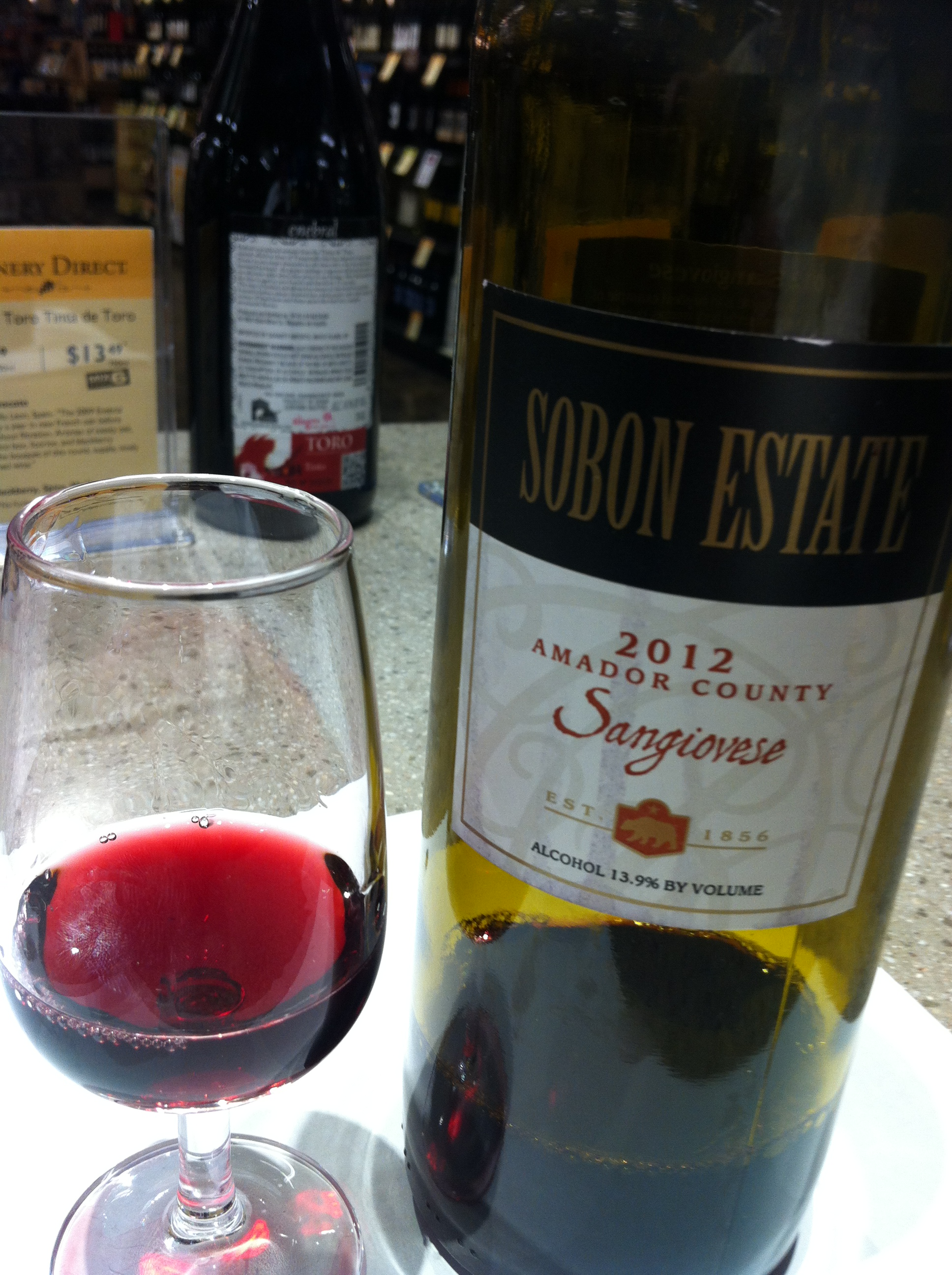 California red wine from Amador county made from the Sangiovese grape